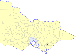 Location of the Shire of Traralgon within Victoria.